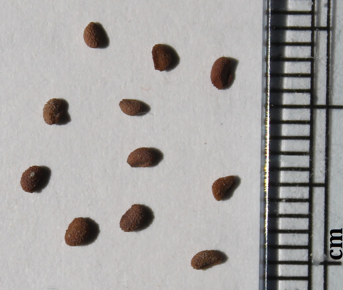 Sarracenia purpurea seeds.